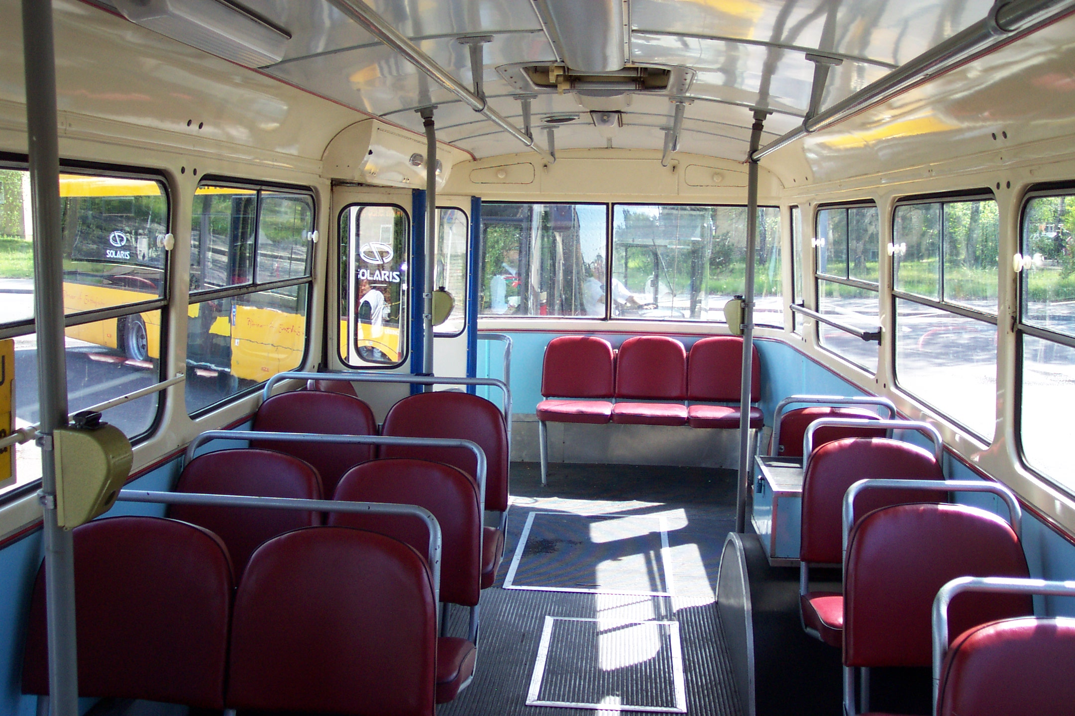 Czech trolleybus Škoda 9Tr at the 55 years of trolleybus transport in Pardubice, interior, rear part of the vehicle.